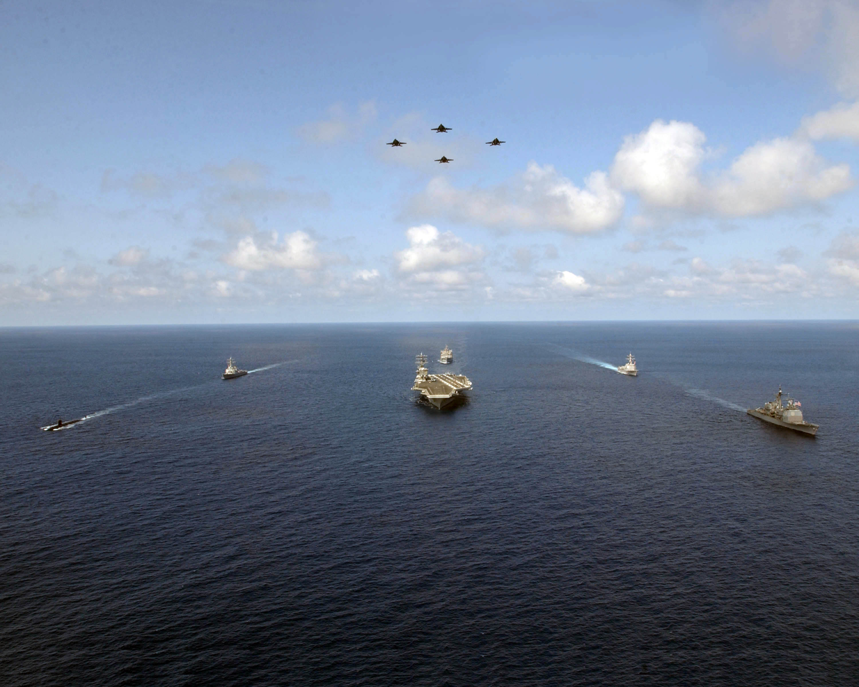 Pacific Ocean (Mar. 14, 2005) - Four F/A-18F Super Hornets fly over USS Nimitz (CVN 68) and her escorts while underway off the coast of southern California. Nimitz and Carrier Strike Group Eleven (CSG-11) are currently conducting a Joint Task Force Training Exercise (JTFEX). U.S. Navy photo by Photographer's Mate 3rd Class Shannon E. Renfroe (RELEASED)